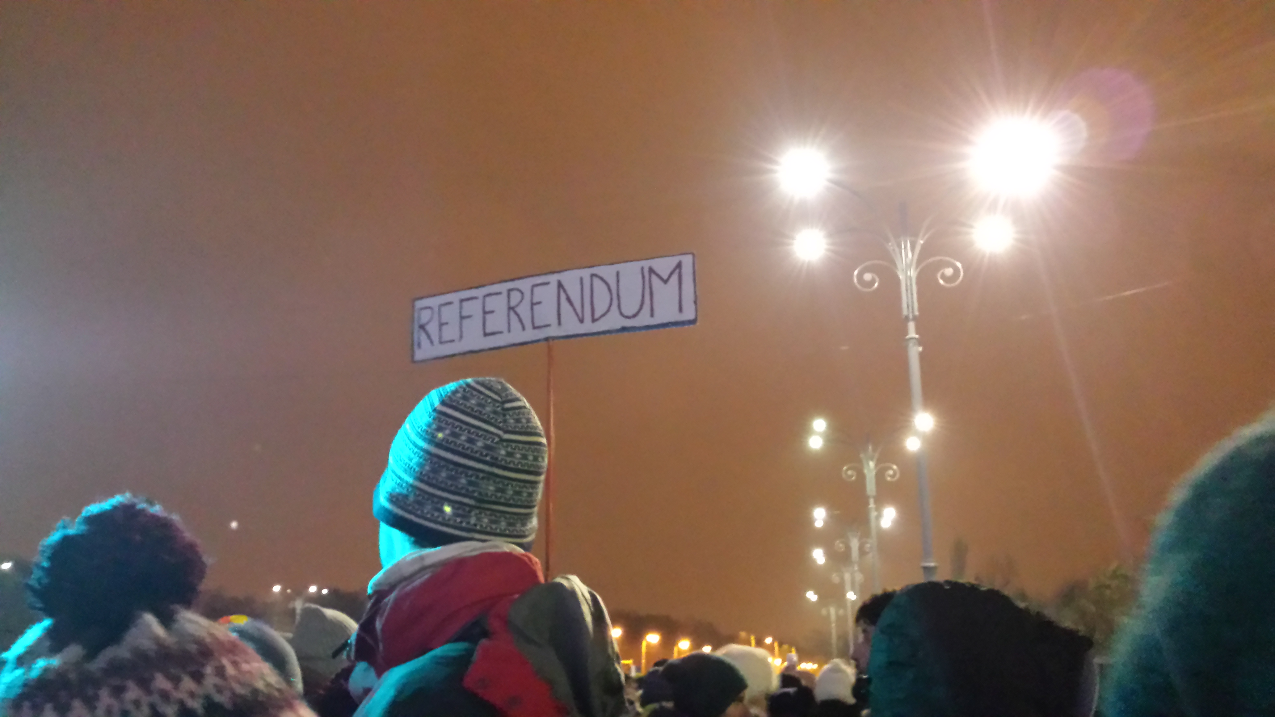 The protest that took place in Bucharest on 29 January 2017 in front of the Government building.